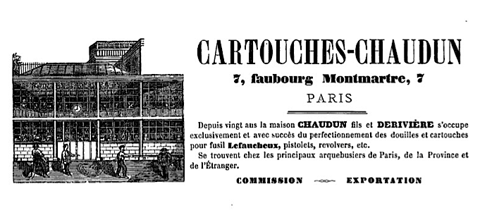 Advertising for Cartouches-Chaudun located 7 faubourg Montmartre (Paris, France), In: Album-étrennes... : l'ami du foyer illustré, Paris, Miguet, 1865. The Chaudin House, with Derivière from 1870 to 1875, was established around 1845, and was at this adress until the 1880s (the last company name was Chaudun Fils).